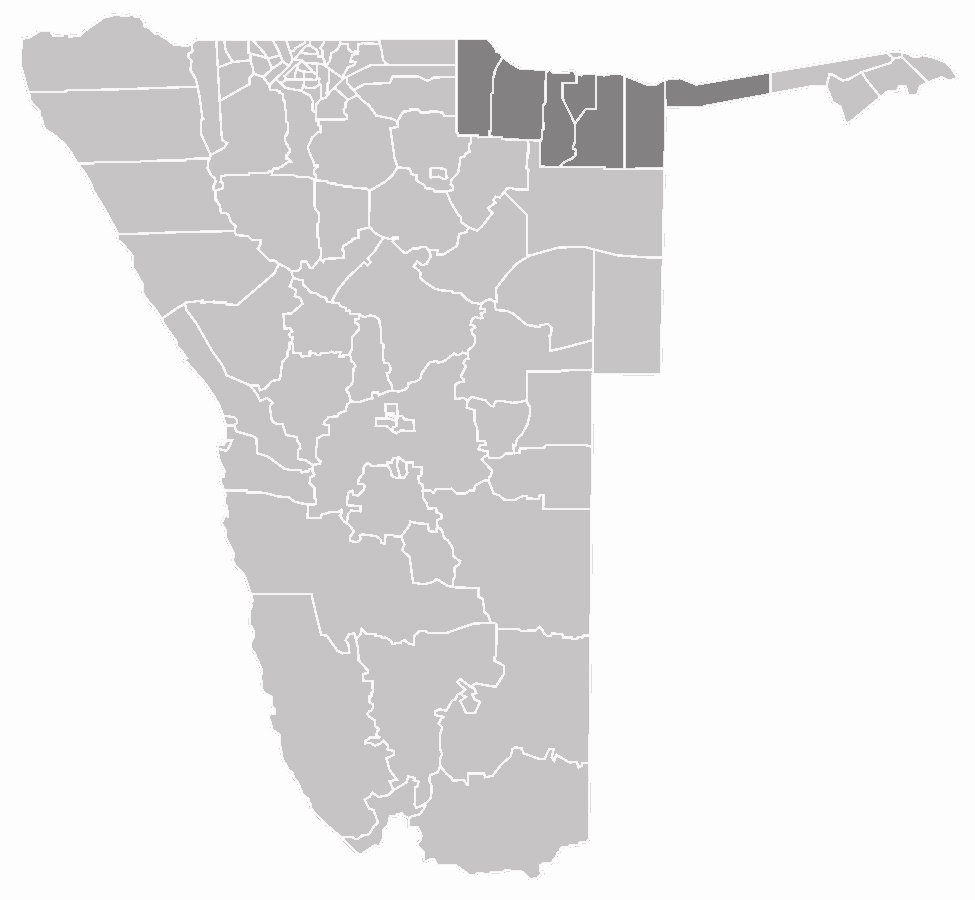 map of the Kavango region in Namibia